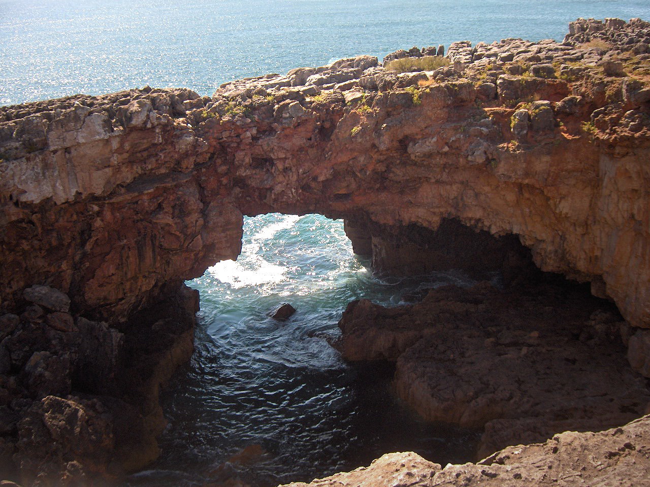 Boca do Inferno (Mouth of Hell) at Cascais, Portugal